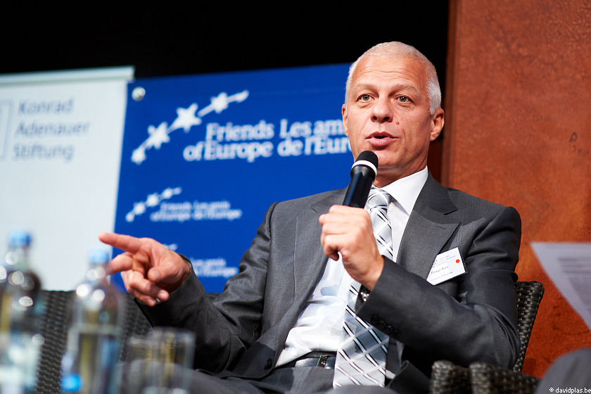 Drago Kos, President of the Council of Europe’s Group of States Against Corruption (GRECO) and Former Chair of the Slovenian Anti-Corruption Commission